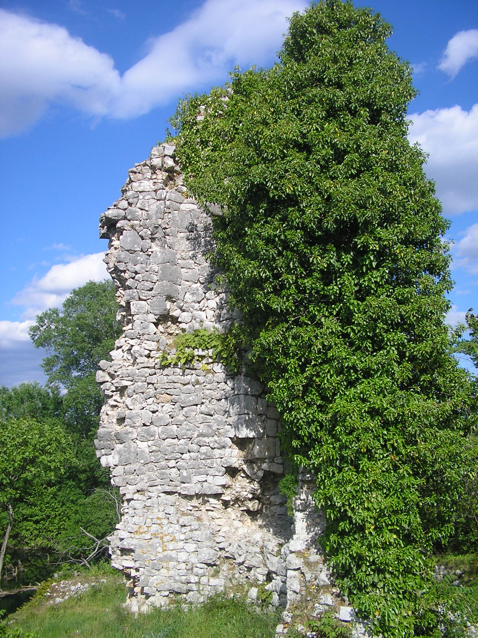 Rt tower near Dračevo (BiH)